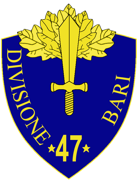 47a Divisione Fanteria Bari insignia, Regio Esercito, Italy, WWII